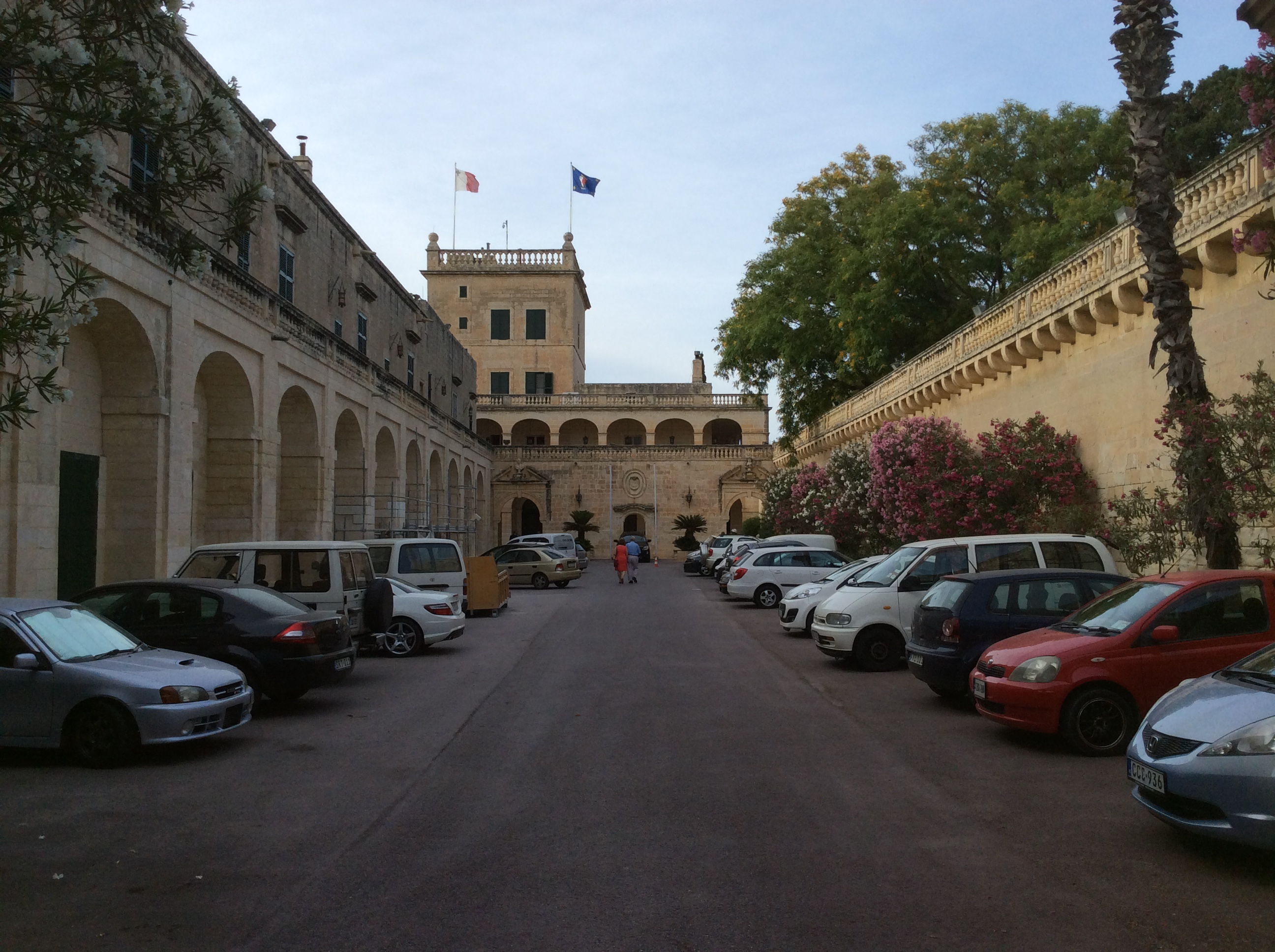 San Antonio Palace and Gardens This media is about Maltese cultural property with inventory number 01152.